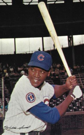 Professional baseball player Willie Smith